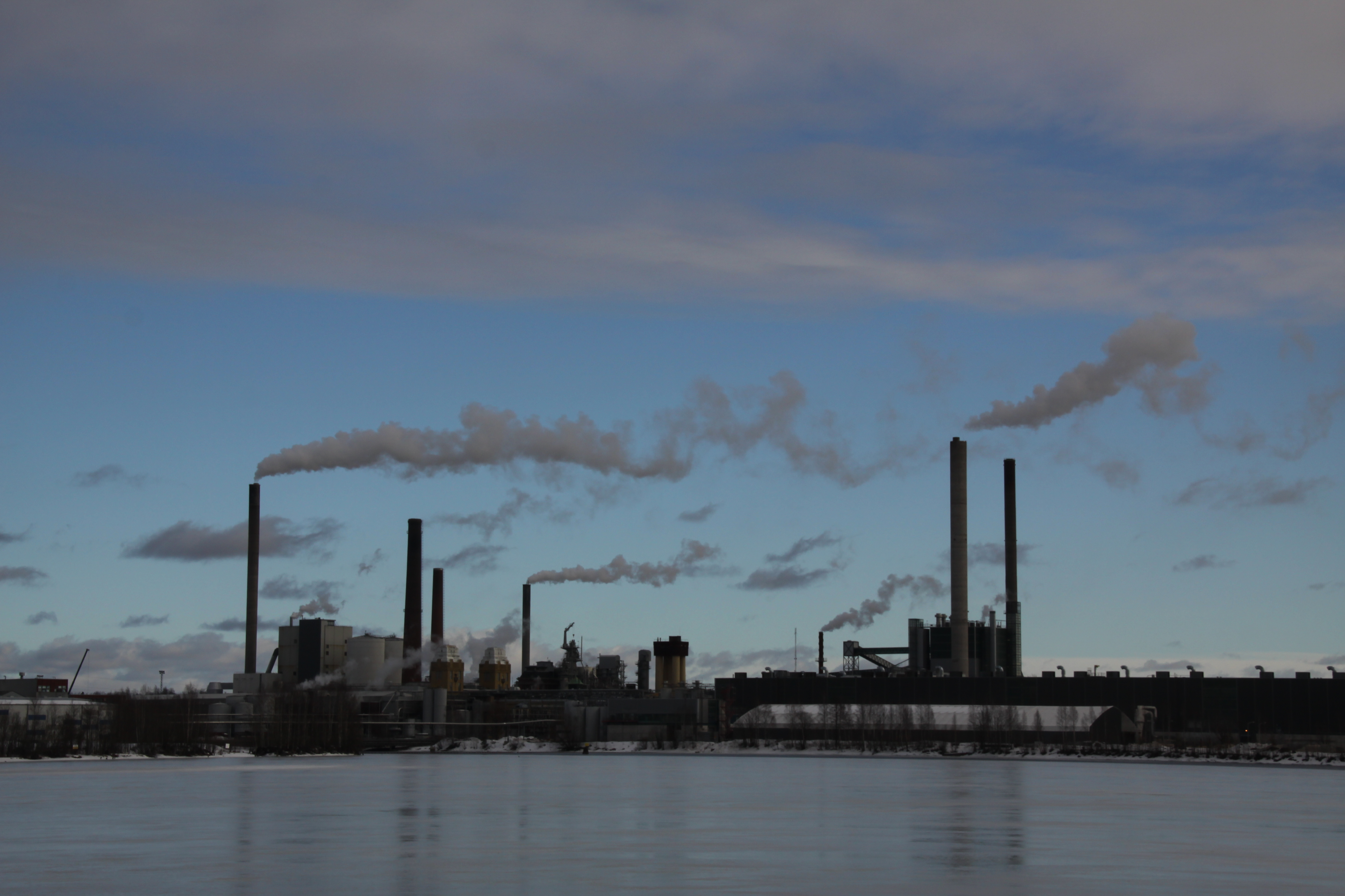 Stora Enso pulp factories in Varkaus, Finland.